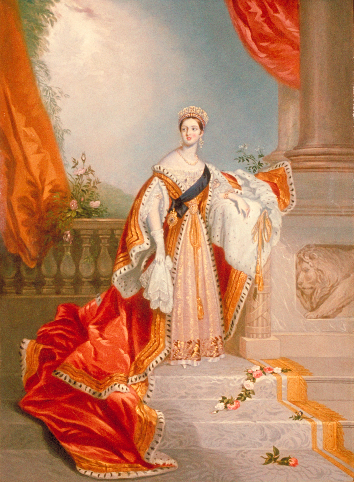 Queen Victoria on the occasion of her speech at the House of Lords where she prorogated the Parliament of the United Kingdom in July 1837 (her first public appearance as the Queen).